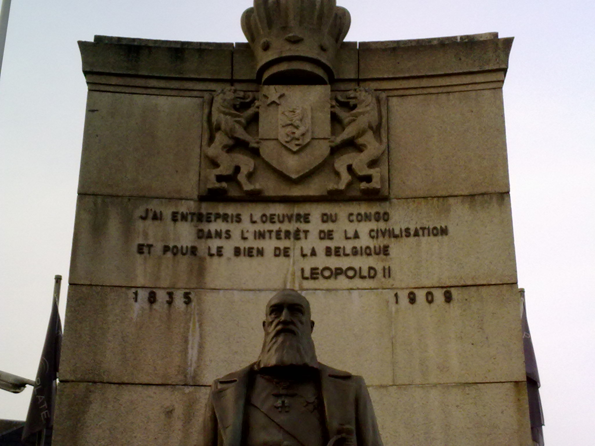 Monument to Leopold II, the colonialist, in Arlon (Province of Luxemburg) Belgium. "J'ai entrepris l'oeuvre de la colonisation dans l'intérêt de la civilisation et pour le bien de la Belgique" i.e "I have undertaken the opus of colonialization for the sake of civilisation and for the benefit of Belgium"